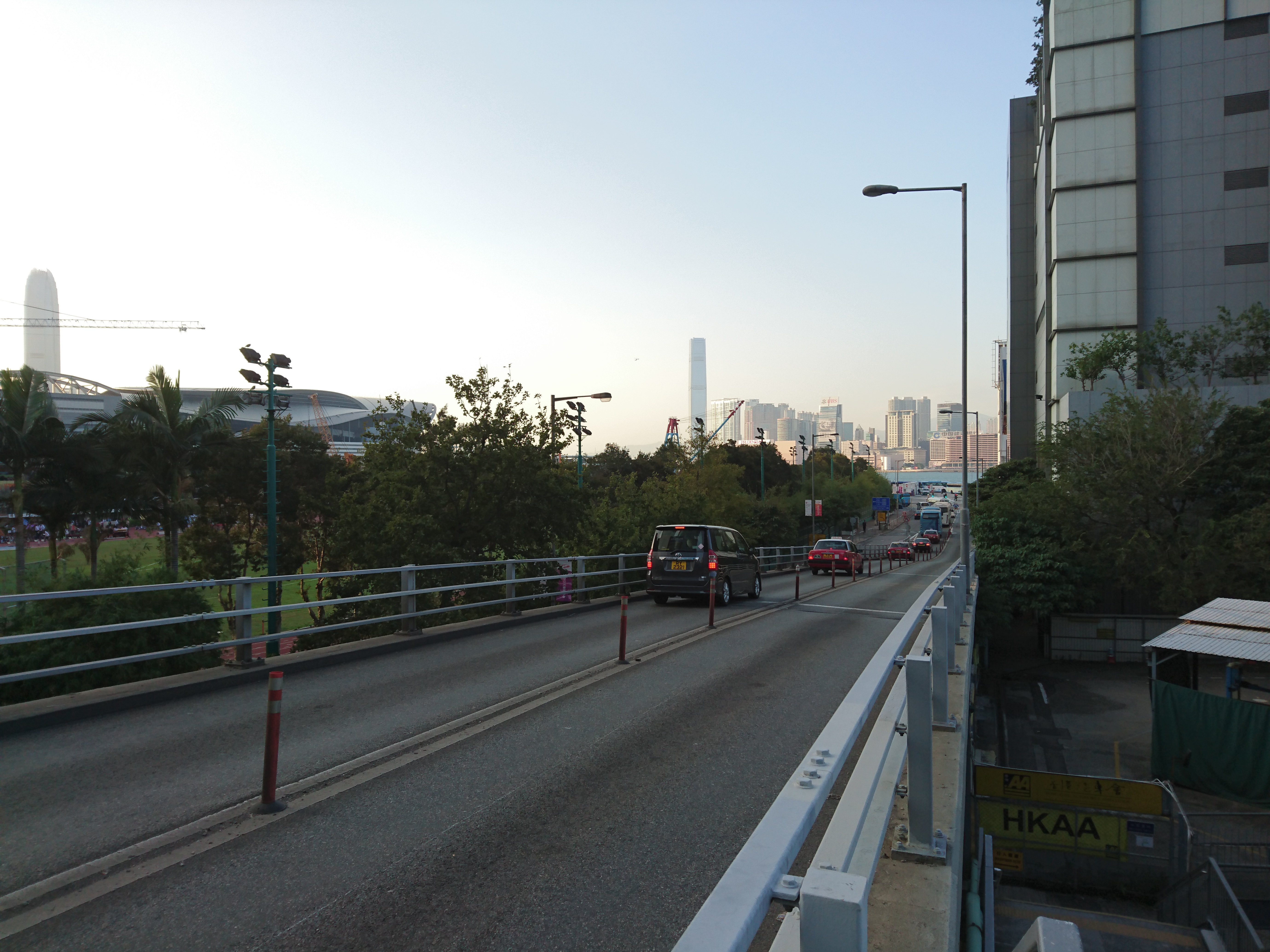 Marsh Road Flyover towards North